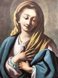 Madonna painted by Alfonso Maria de' Liguori, saint